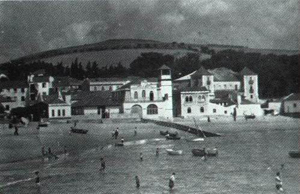 AHBVPA-Quartel01